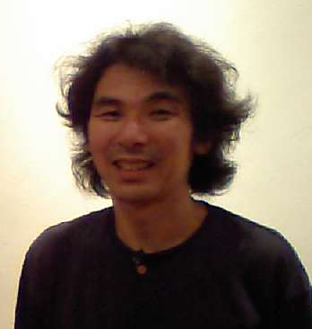 The Japanese American musician Ayuo Takahashi in 2007.